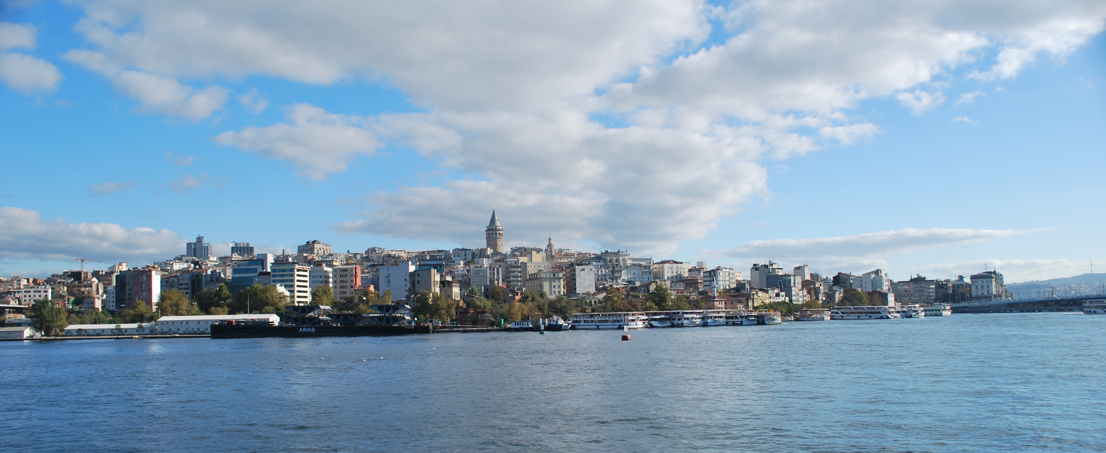 Karaköy neighbourhood with the tower Galata Kulesi, Beyoglu, IstanbulNorsk bokmål: Strøket Karaköy med Galata Kulesi-tårnet, Beyoglu, Istanbul